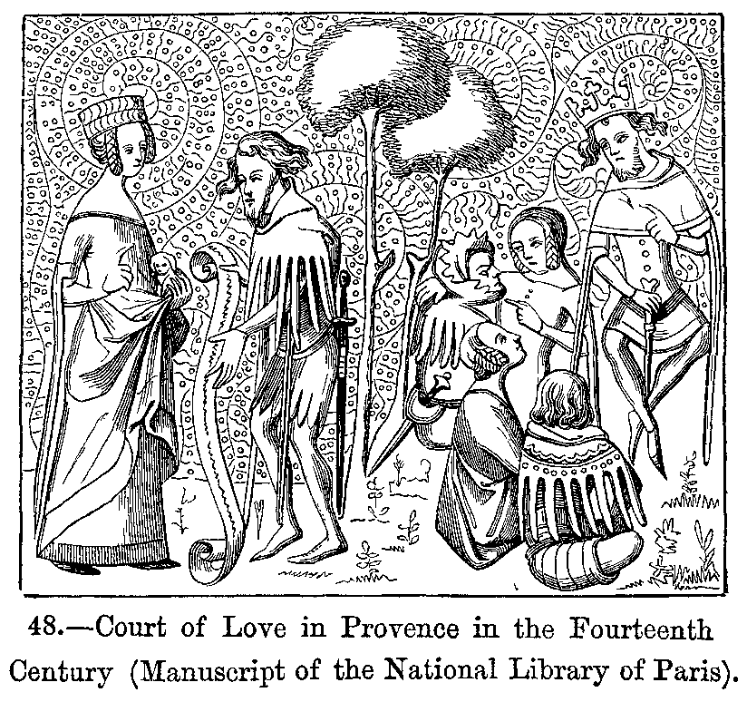 Court of Love in Provence in the Fourteenth Century manuscript in the National Library of Paris).